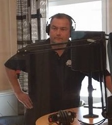 Thomas Hartman intervjuas i P1 Studio 1.